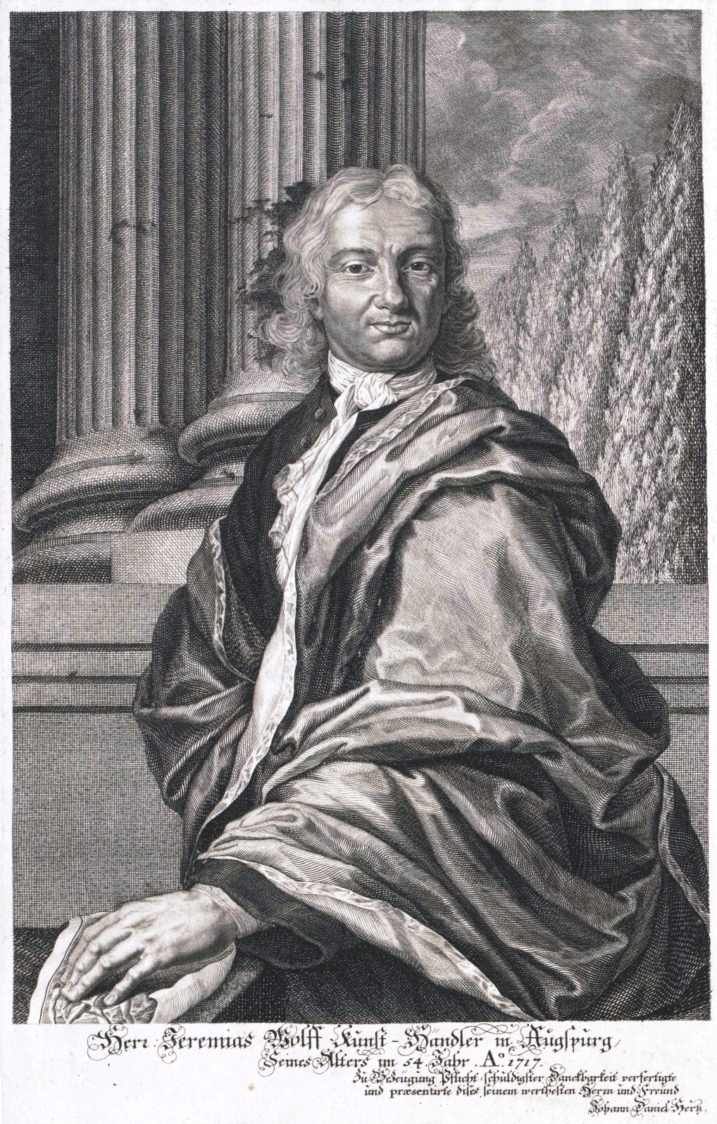 Jeremias Wolff (1663–1724)